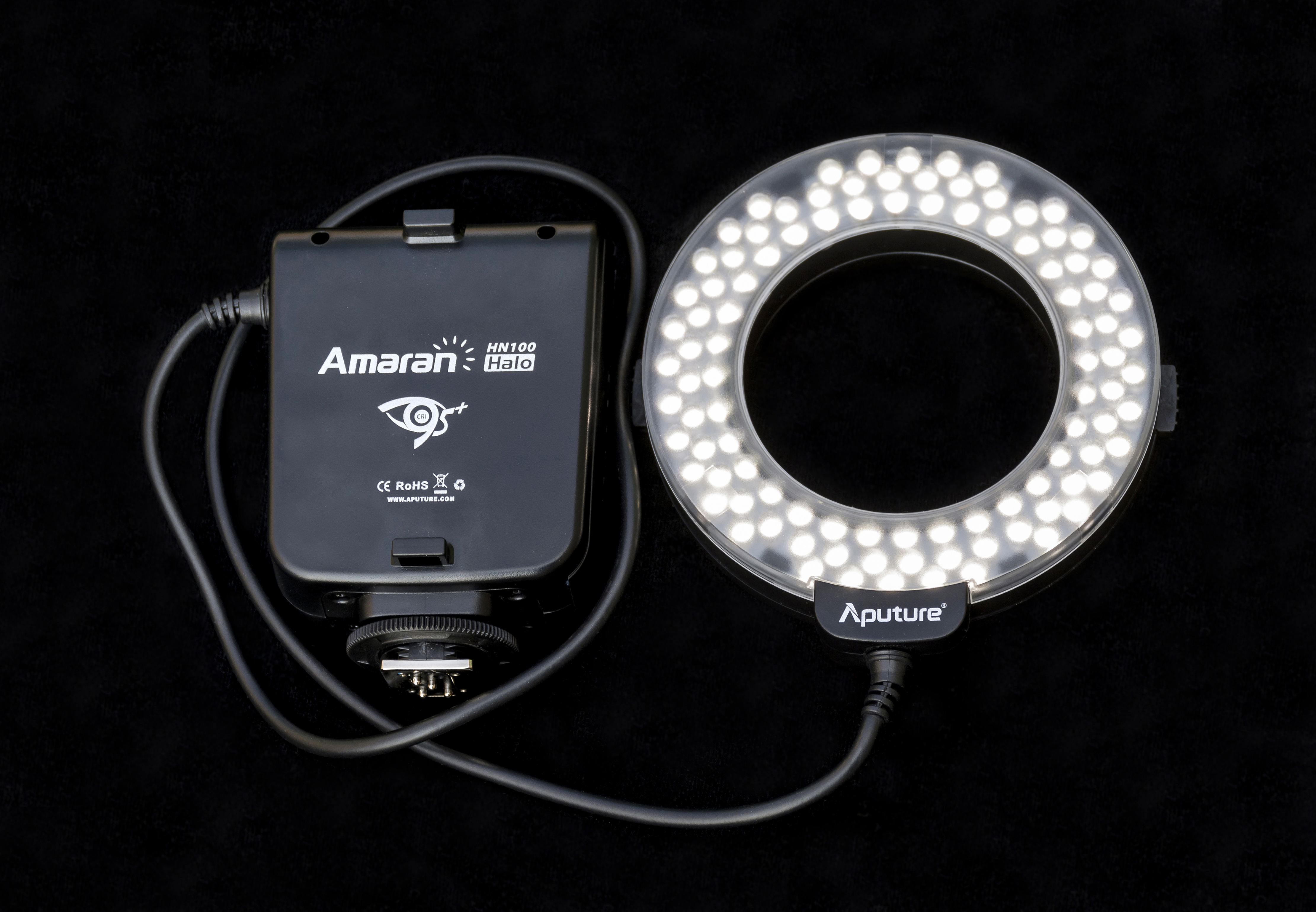 Ring flash Aputure LED HALO HN100 for Nikon